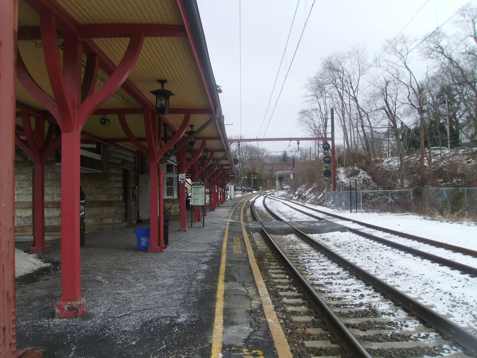 Bernardsville Station along New Jersey Transit's Gladstone Branch in Bernardsville, New Jersey, facing Summit-bound.